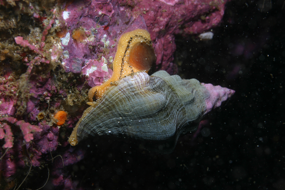 Photo of Kelletia kelletii. Location (General): Point Lobos. Site (Specific): Whaler's Cove.